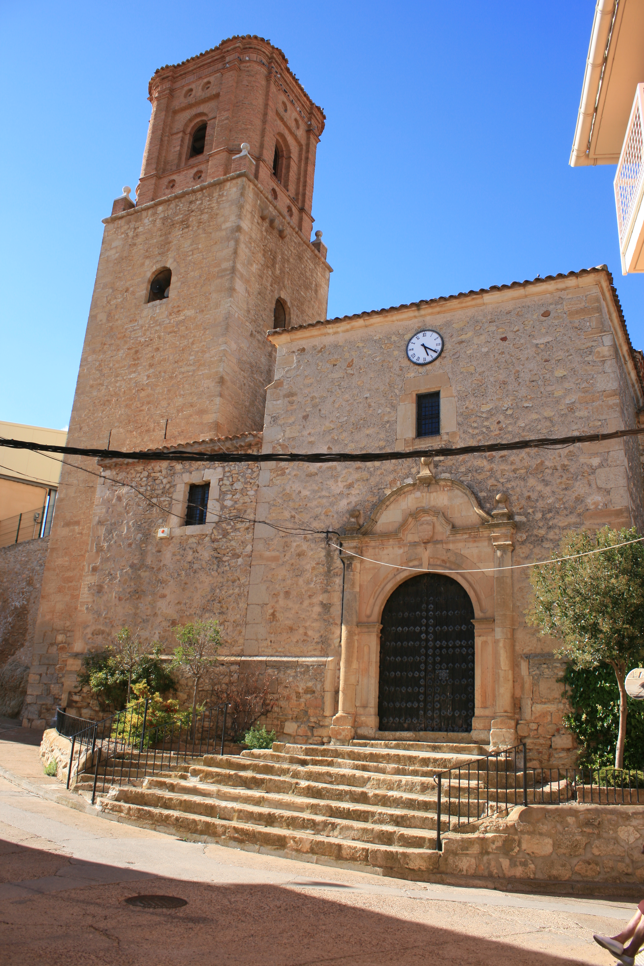 Church of the Assumption, Cubel, Zaragoza, Spain